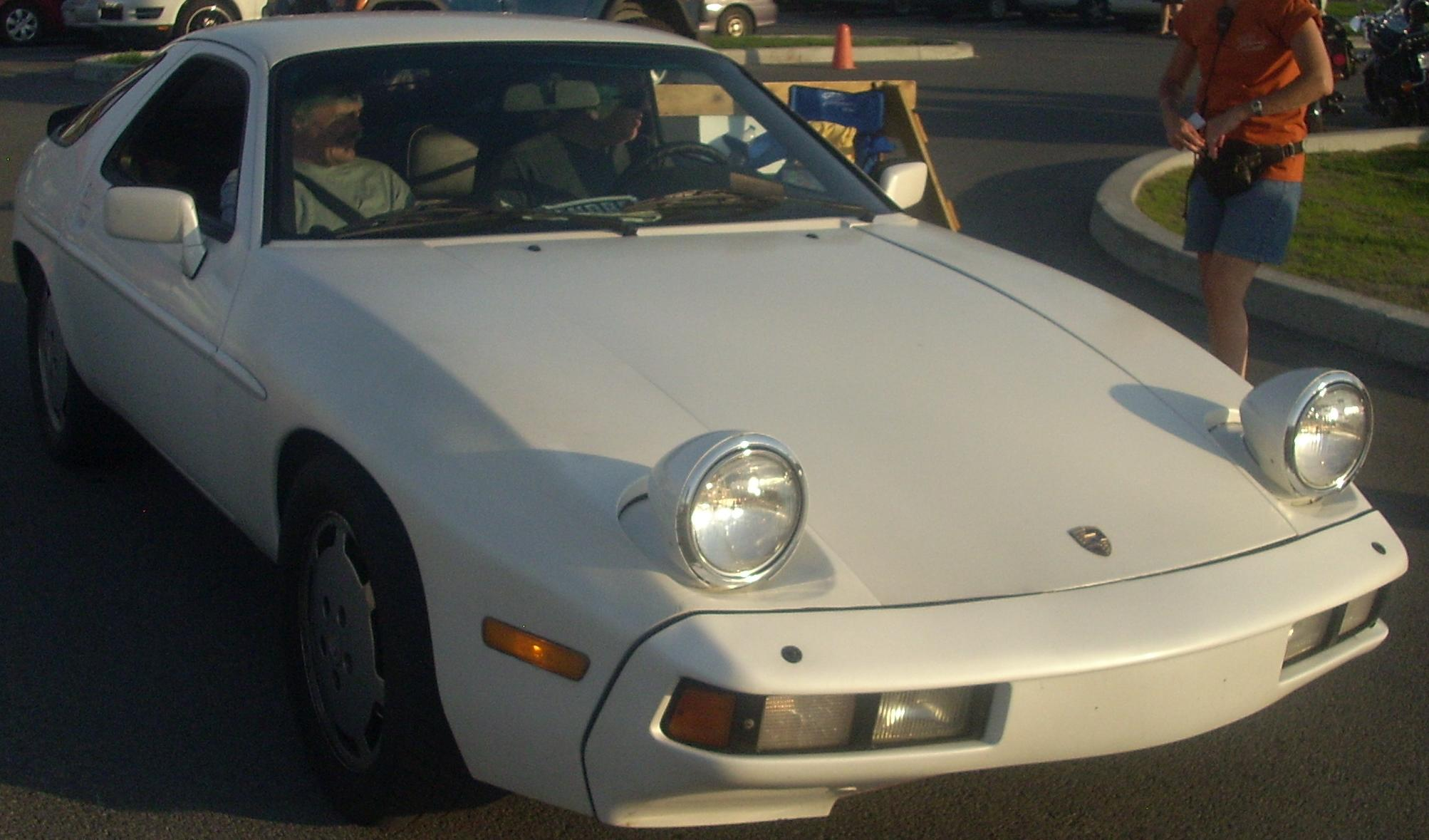 Porsche 928 photographed in Laval, Quebec, Canada at Centropolis Laval.